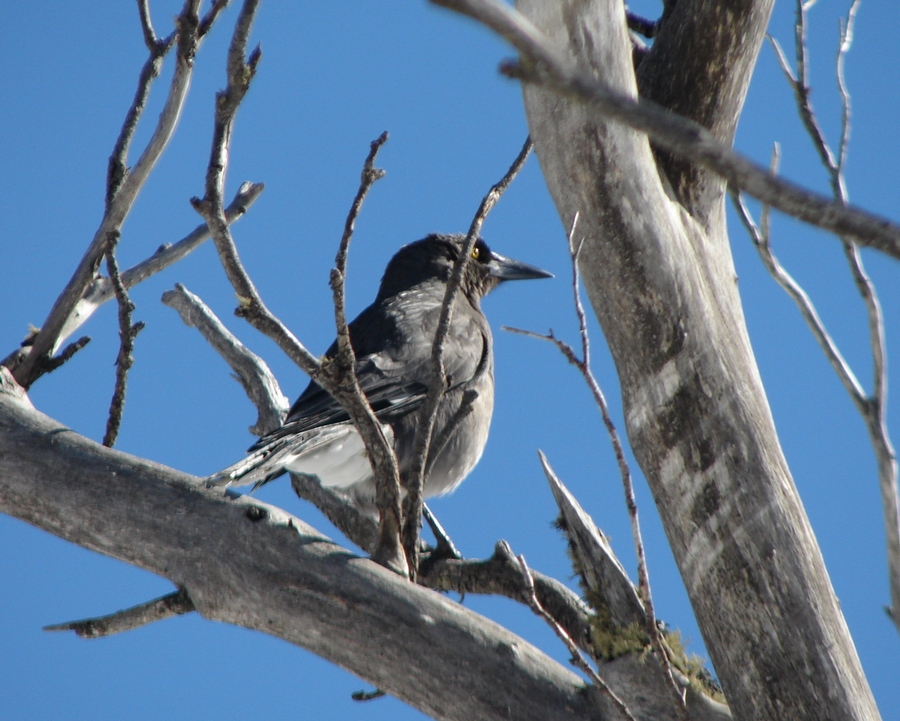 Grey Currawong Strepera versicolor on a burned snow gum tree (snow eucalypt) near Mt. Hotham, Victoria, Australia.